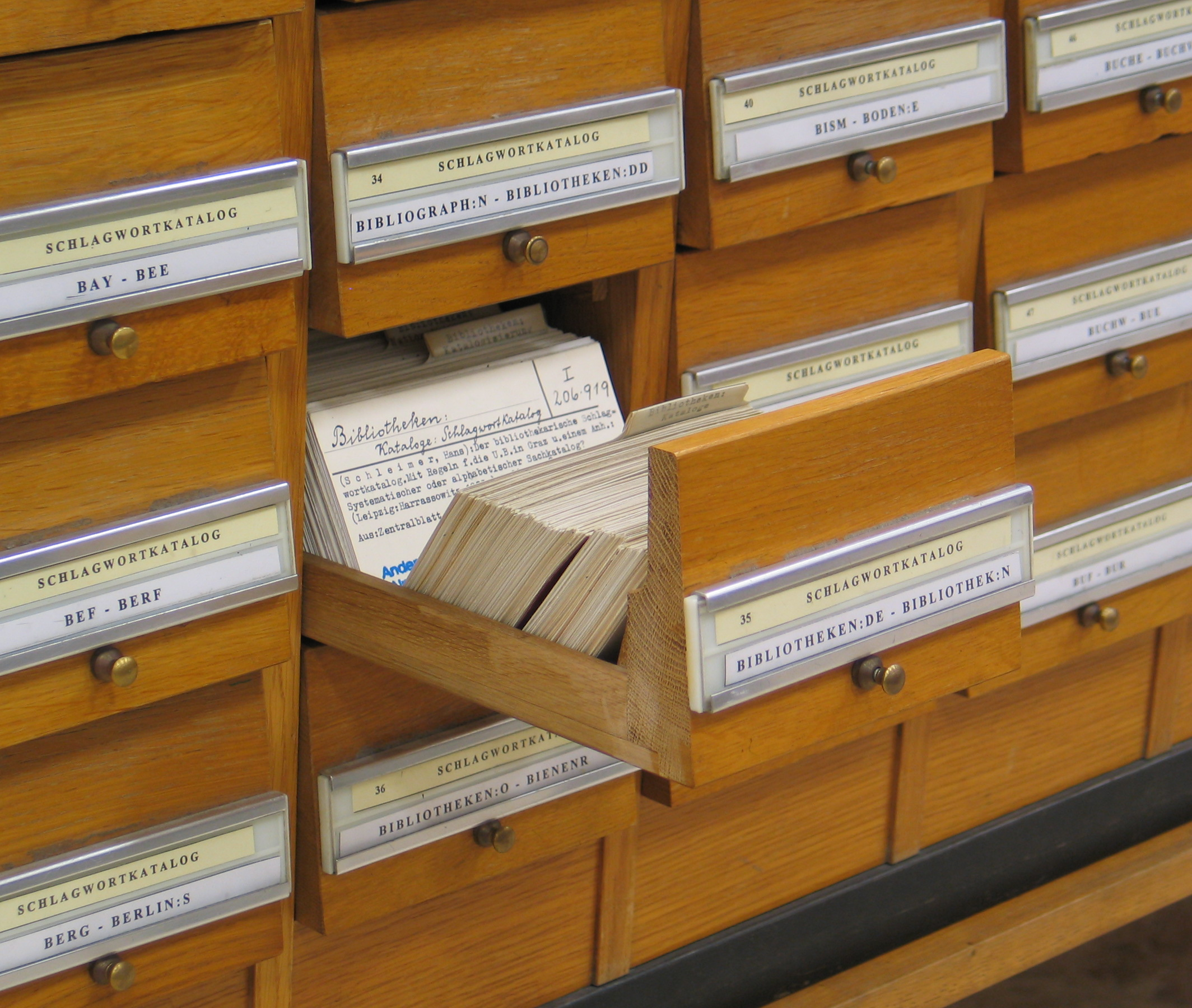 The subject catalogue ("Schlagwortkatalog") of the University Library of Graz. The card shown refers to a text by Hans Schleimer who made up the rules for this catalogue.